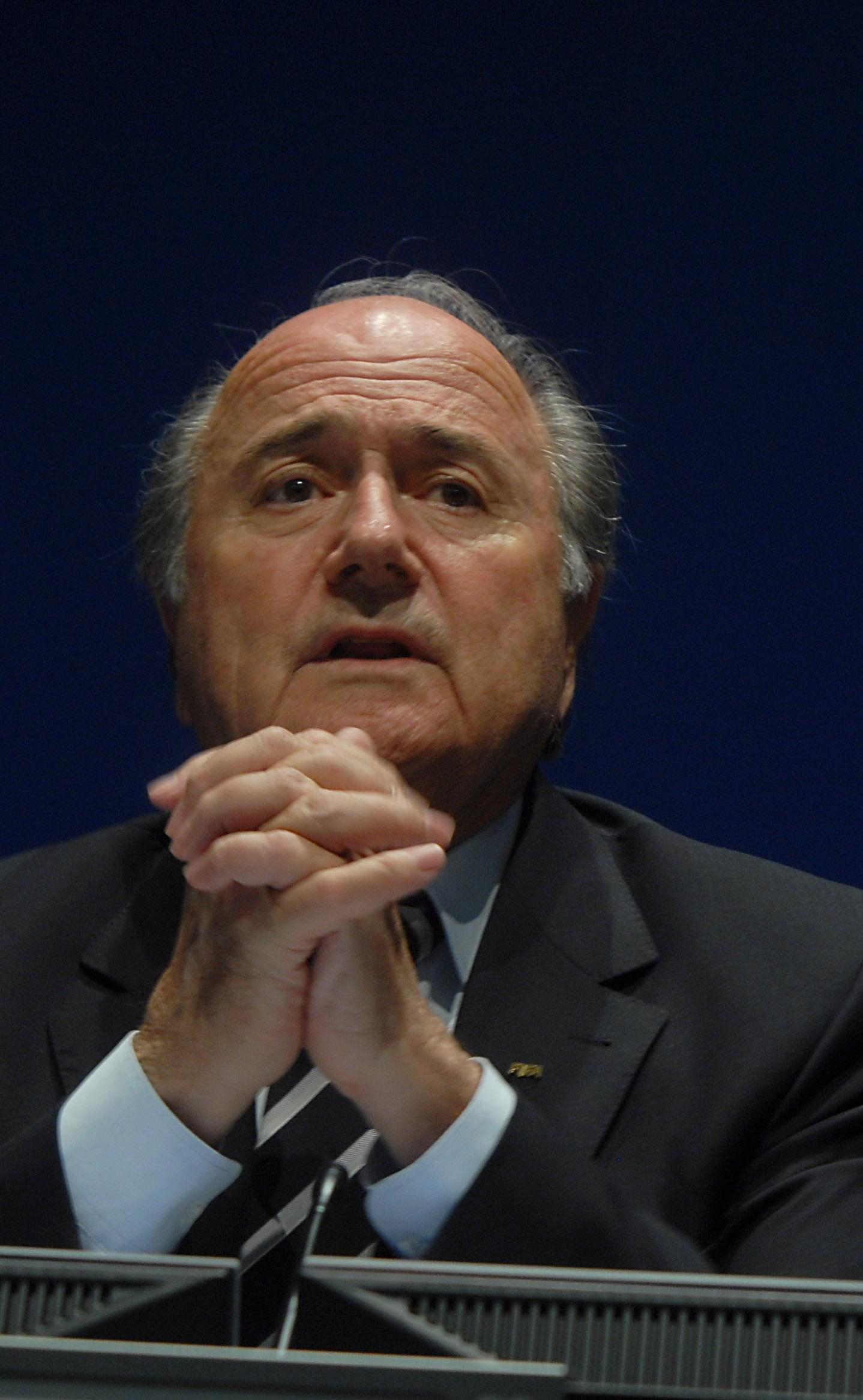 Joseph "Sepp" Blatter, President of FIFA